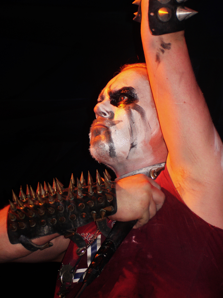 Nattefrost of Carpathian Forest live in Ludwigsburg, Germany (2006).